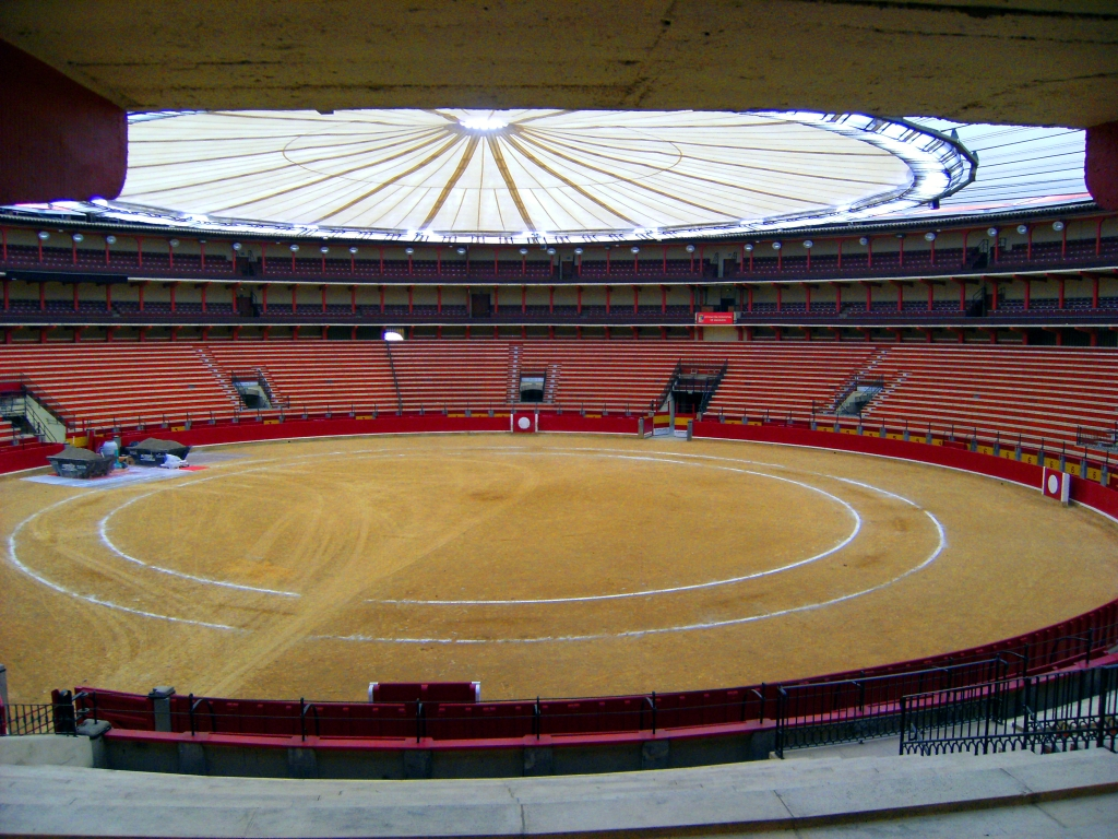 Zaragoza - Plaza de Toros